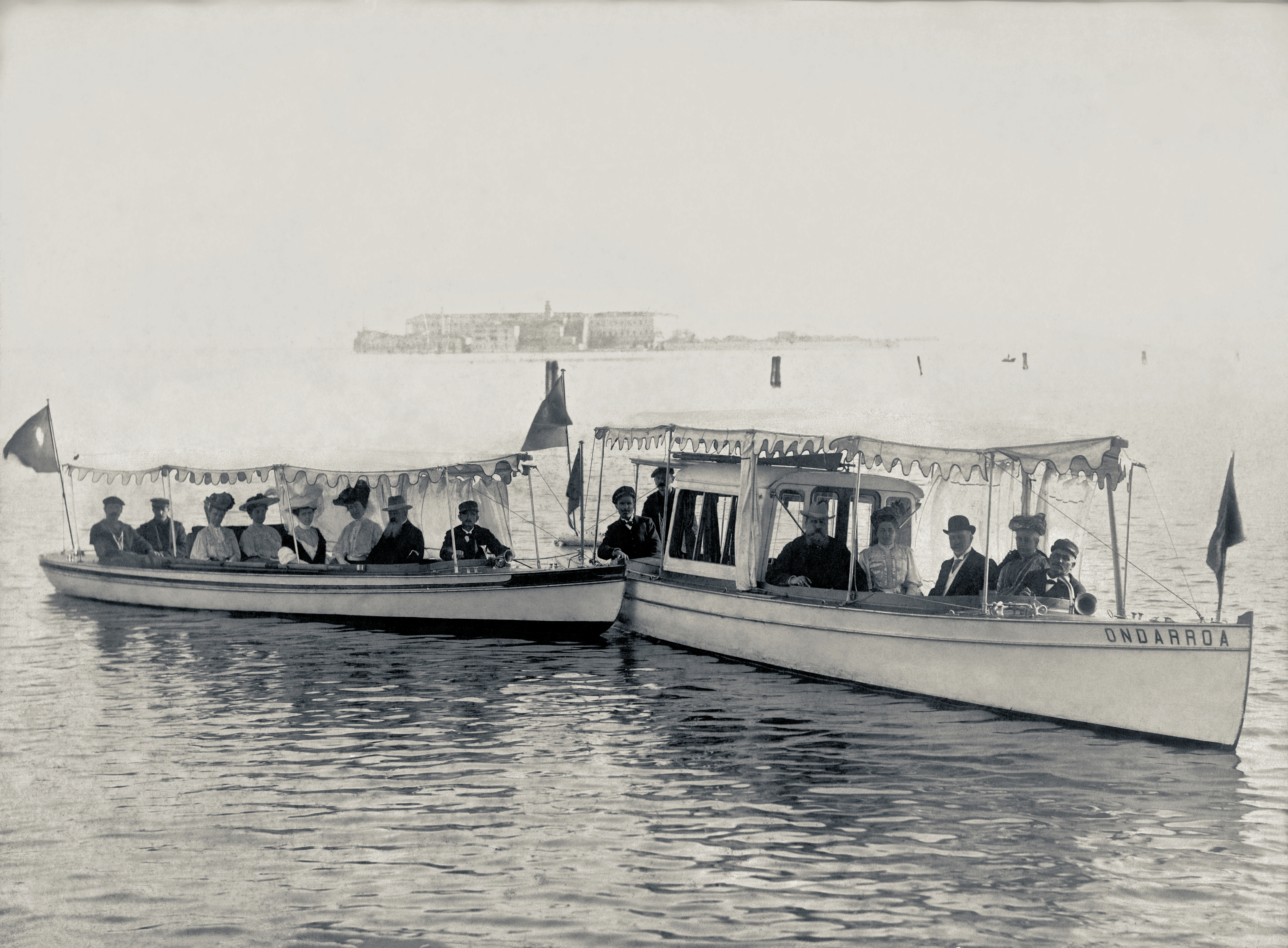 Photograph taken in Venice showing a group of people in two boats. In "Ondarroa", Carlos de Borbón and Marie-Berthe de Rohan, Dukes of Madrid, accompanied by Tirso de Olazábal and Ramona Álvarez de Eulate, Counts of Arbelaiz. In the boat on the left, Tirso and Ramona's daughters Margarita, Blanca, Lorenza and Mercedes Olazábal. In the background, the Island of San Servolo.